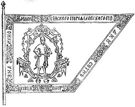 The historic flag of the Ukrainian Cossacks.